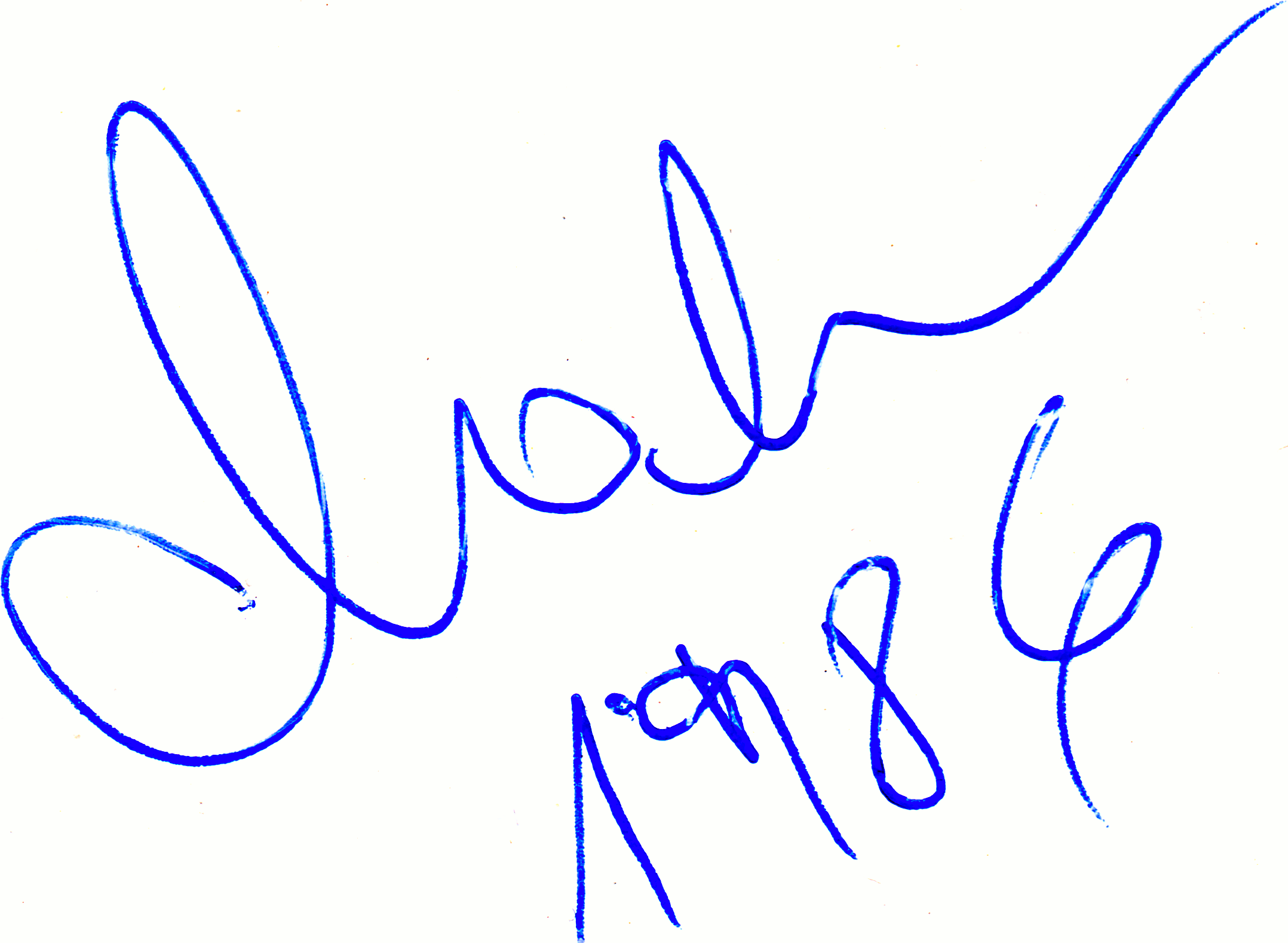 Signature of Josef Matuz 1986